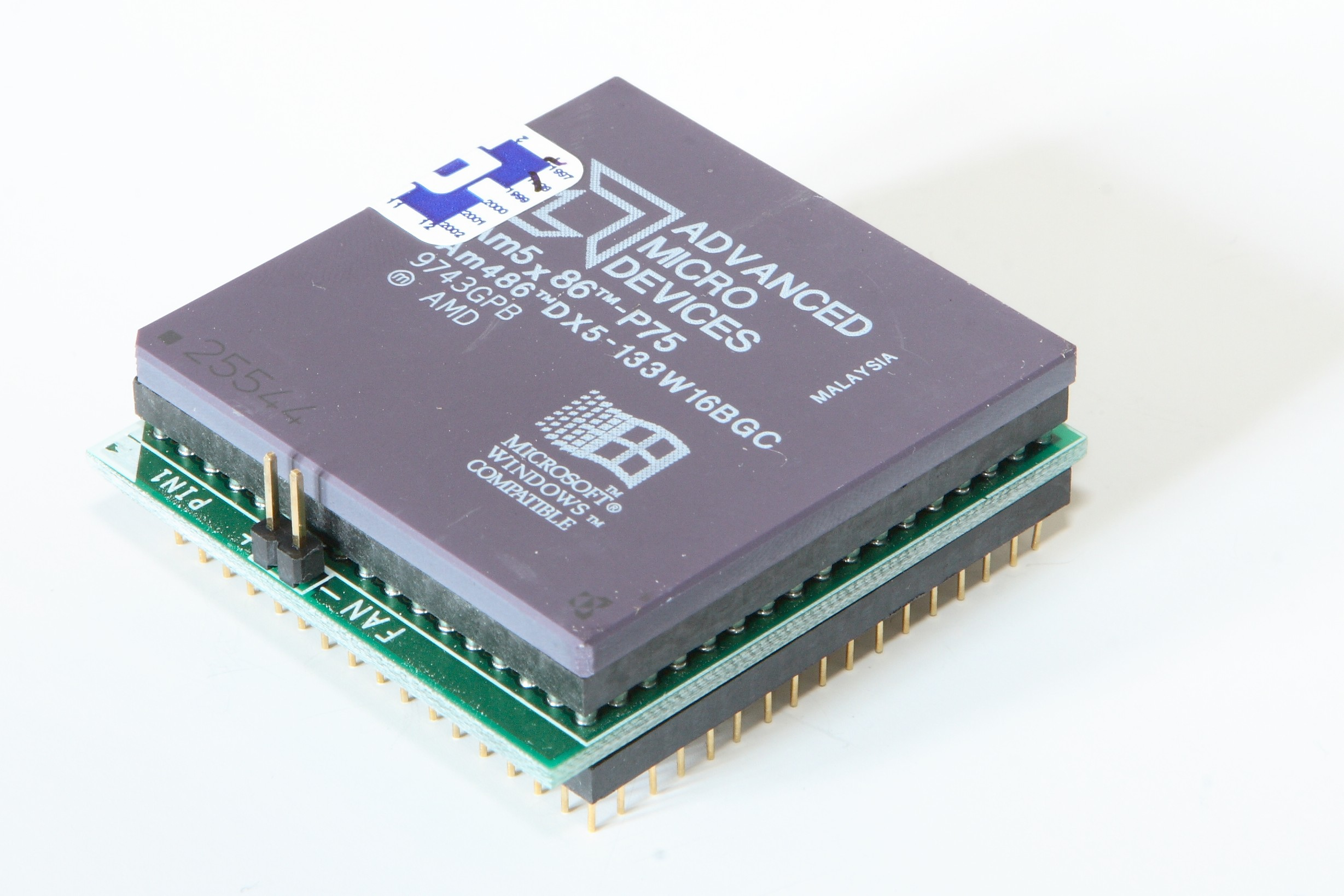 AMD Am5x86-P75 with voltage converter Camera data Camera Canon EOS 30D Lens Canon EF 24-70 mm 2.8 L USM Focal length 70 mm Aperture f/19 Exposure time 15 s Sensivity ISO 100 Image Editing Programs Canon Digital Photo Professional